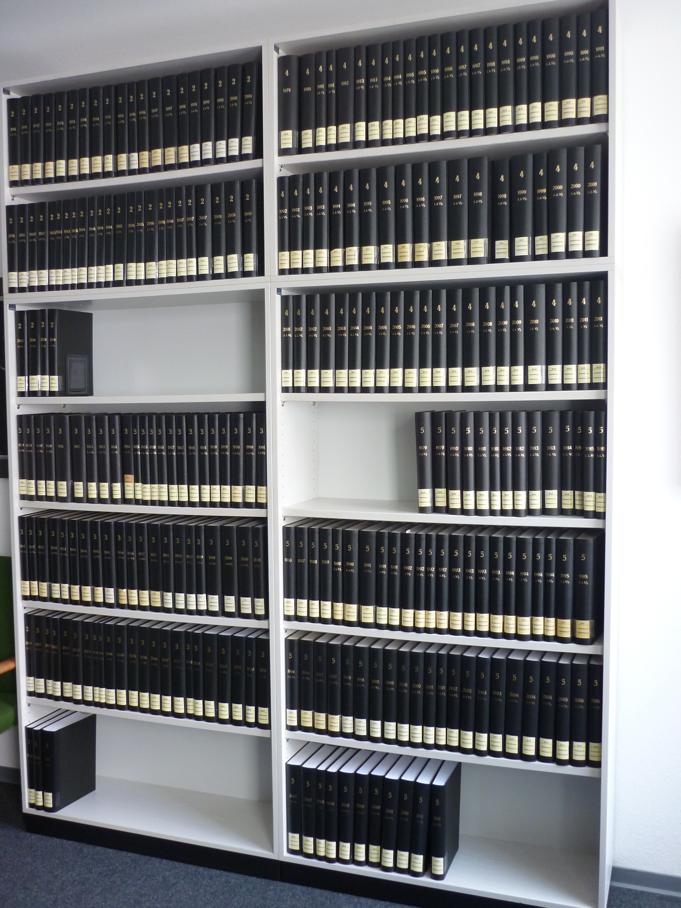 Several volumes of the complete collection of decisions of the Federal Court of Justice of Germany, inventory of the Court's library.